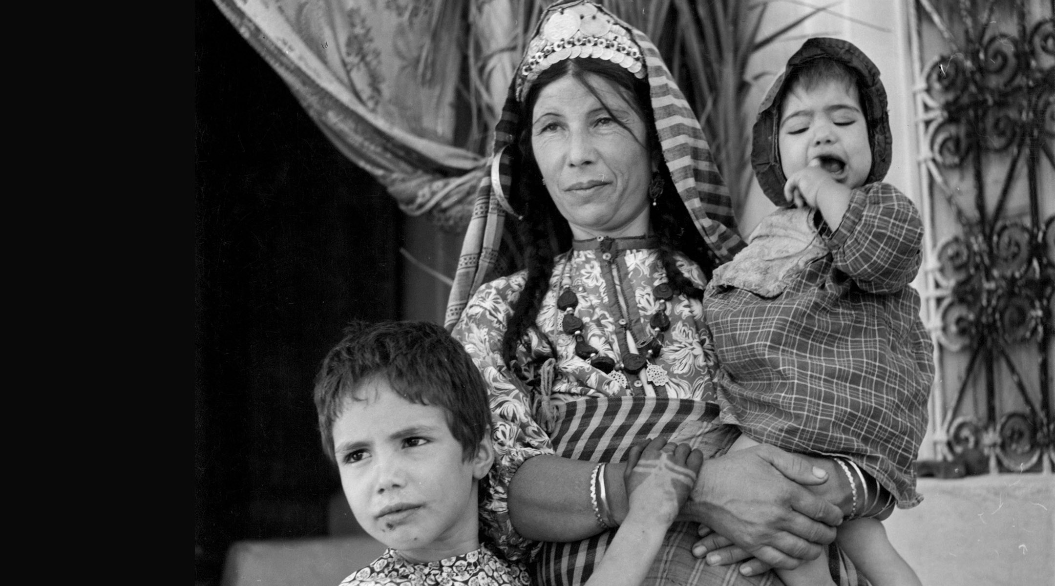 Jewish woman and children outside a synagogue in Djerba, Tunisia